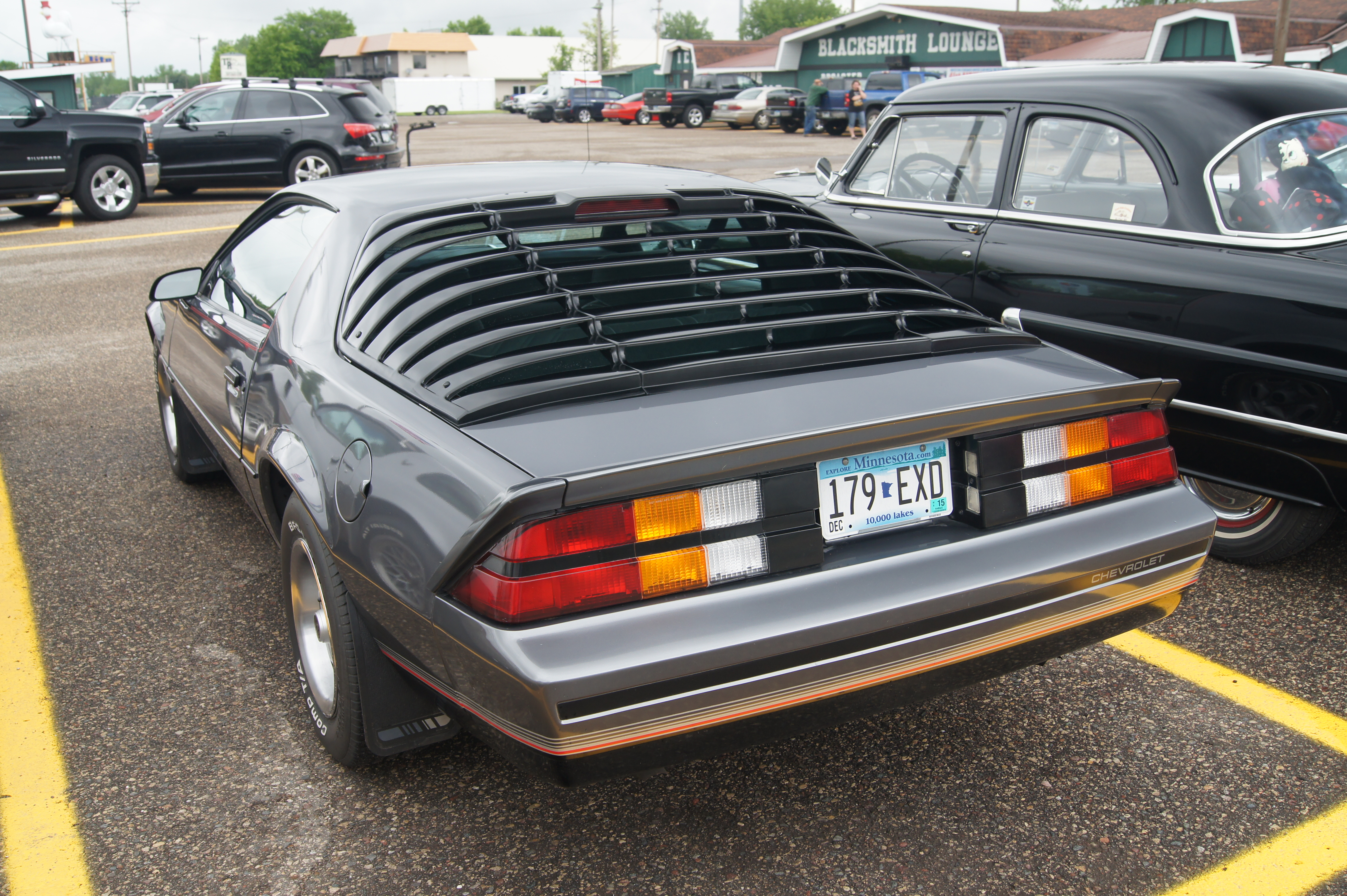 North Star Studeb@ker Drivers Club 41st Annual Car Show Memorial Day 2015 Blacksmith Lounge Hugo, Minnesota Click here for more car pictures at my Flickr site.